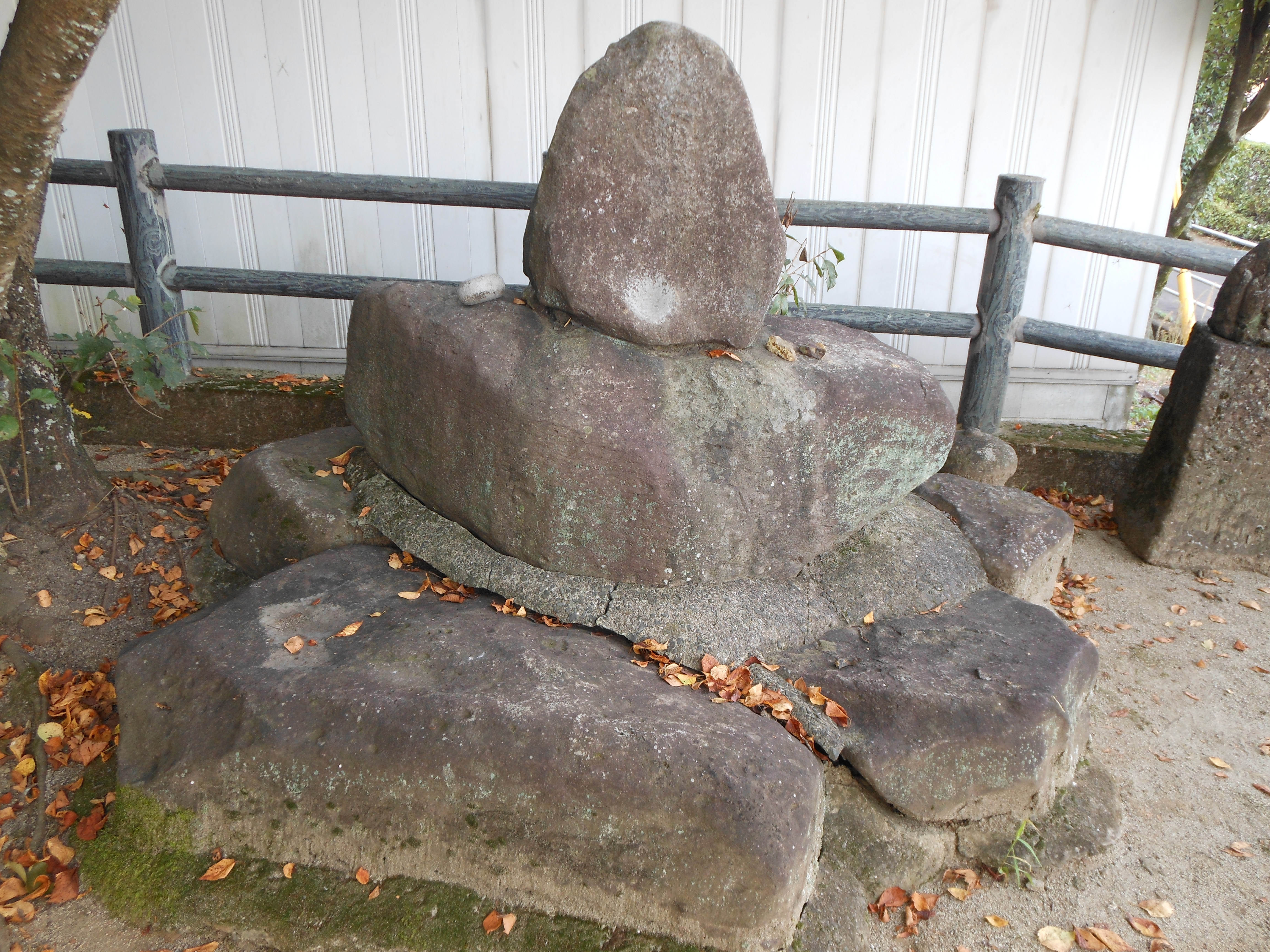 Kankan-ishi, a strange stone makes bell-like sound "clang-clang". It is in Kohoku town, Saga prefecture.